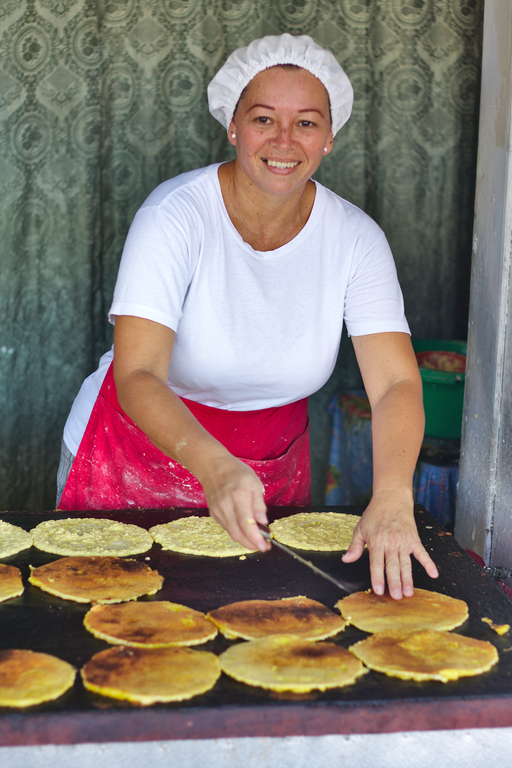 Woman selling cachapas. Chichiriviche, Falcón, Venezuela